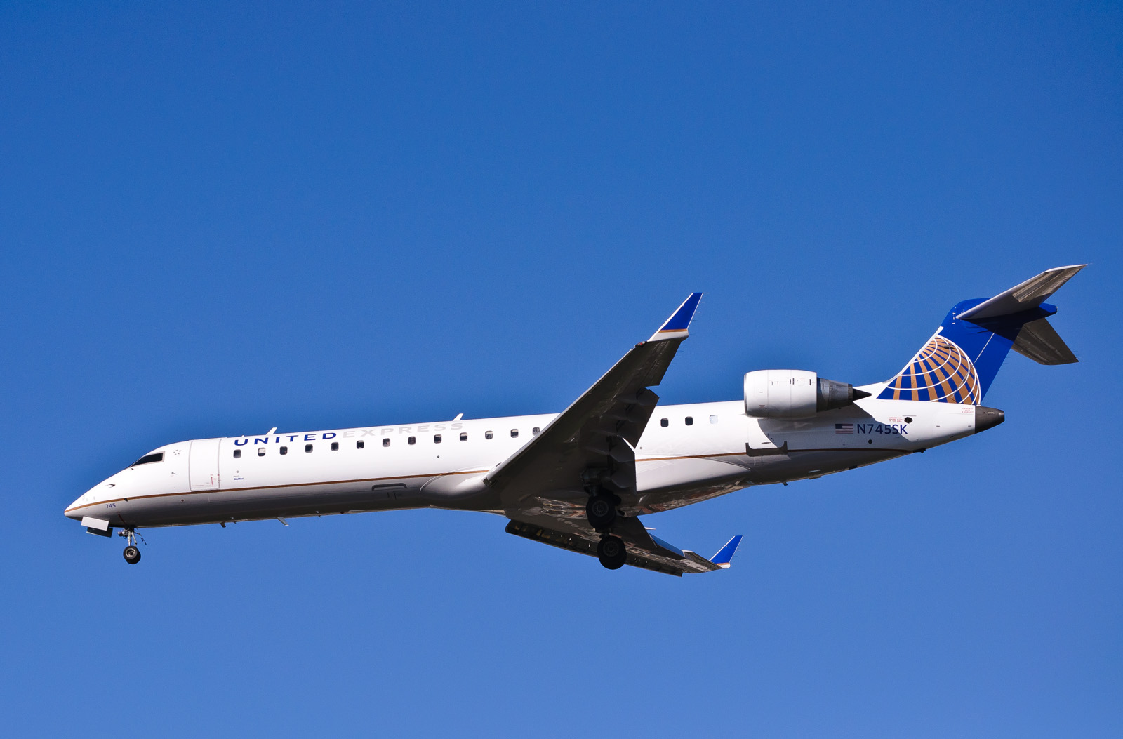 SkyWest 6371, operating on behalf of United Airlines, arrives from Seattle-Tacoma. This used to be a mainline trunk route for United Airlines, but during the gutting of United in the 2000's, it was downgauged to regional jets. Alaska Airlines and Virgin America are the mainline aircraft operators on this route today. N745SK, Bombardier CRJ-700